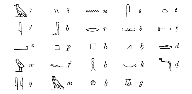 Egyptian hieroglyphs transliteration table from 1889. 𓄿 ꜣ 𓏭 ï 𓈖 n 𓋴 s 𓏏 t 𓇋 i҆ 𓃀 b 𓂋 r 𓈙 š 𓍿 ṯ 𓂝 ꜥ 𓊪 p 𓉔 h 𓈎 ḳ 𓂧 d 𓅱 w 𓆑 f 𓎛 ḥ 𓎡 k 𓆓 ḏ 𓇌 y 𓅓 m 𓐍 ḫ 𓎼 g